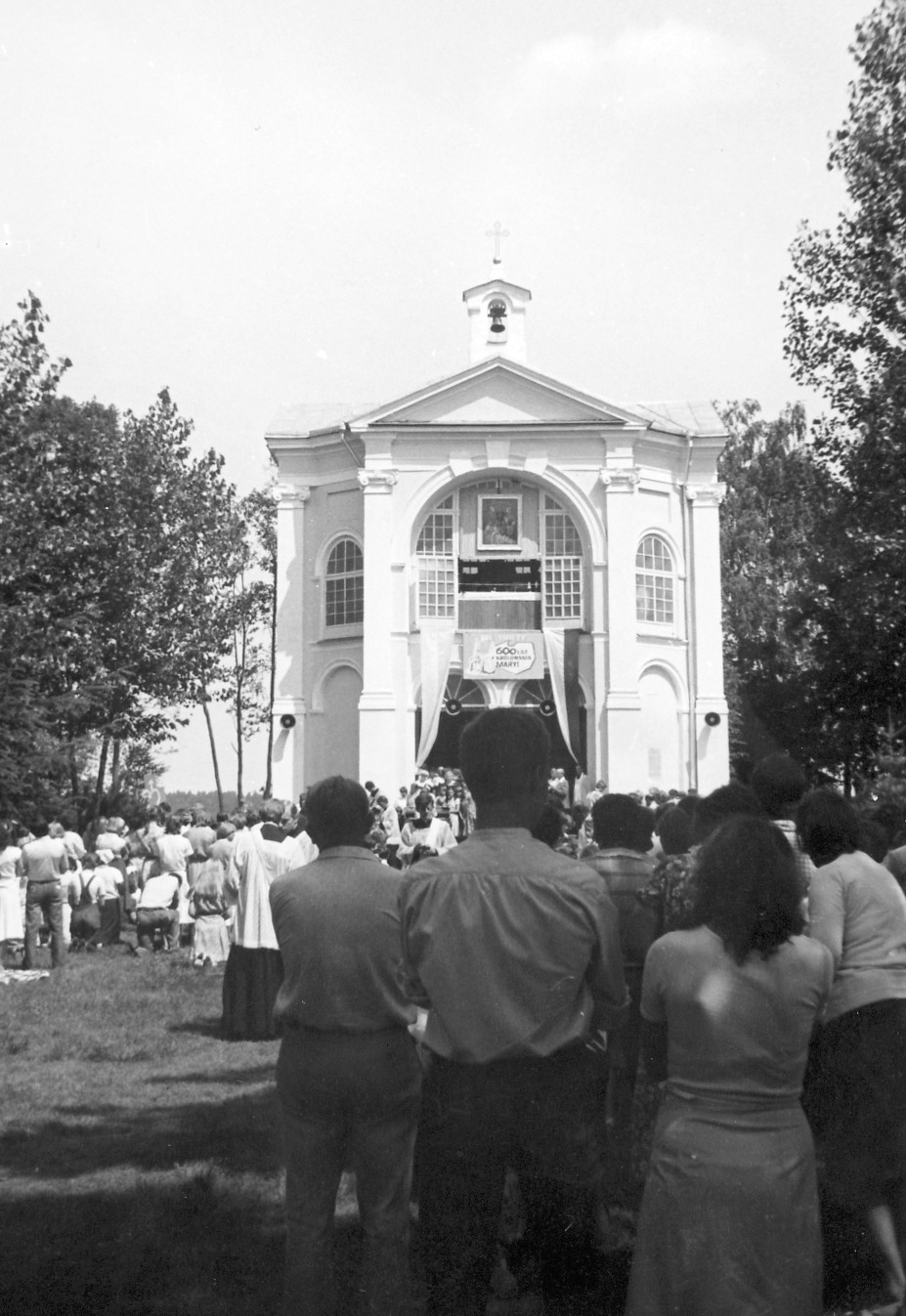 Chapel of Blessed Virgin Mary in Studzieniczna (Poland), 80's of 20th century.